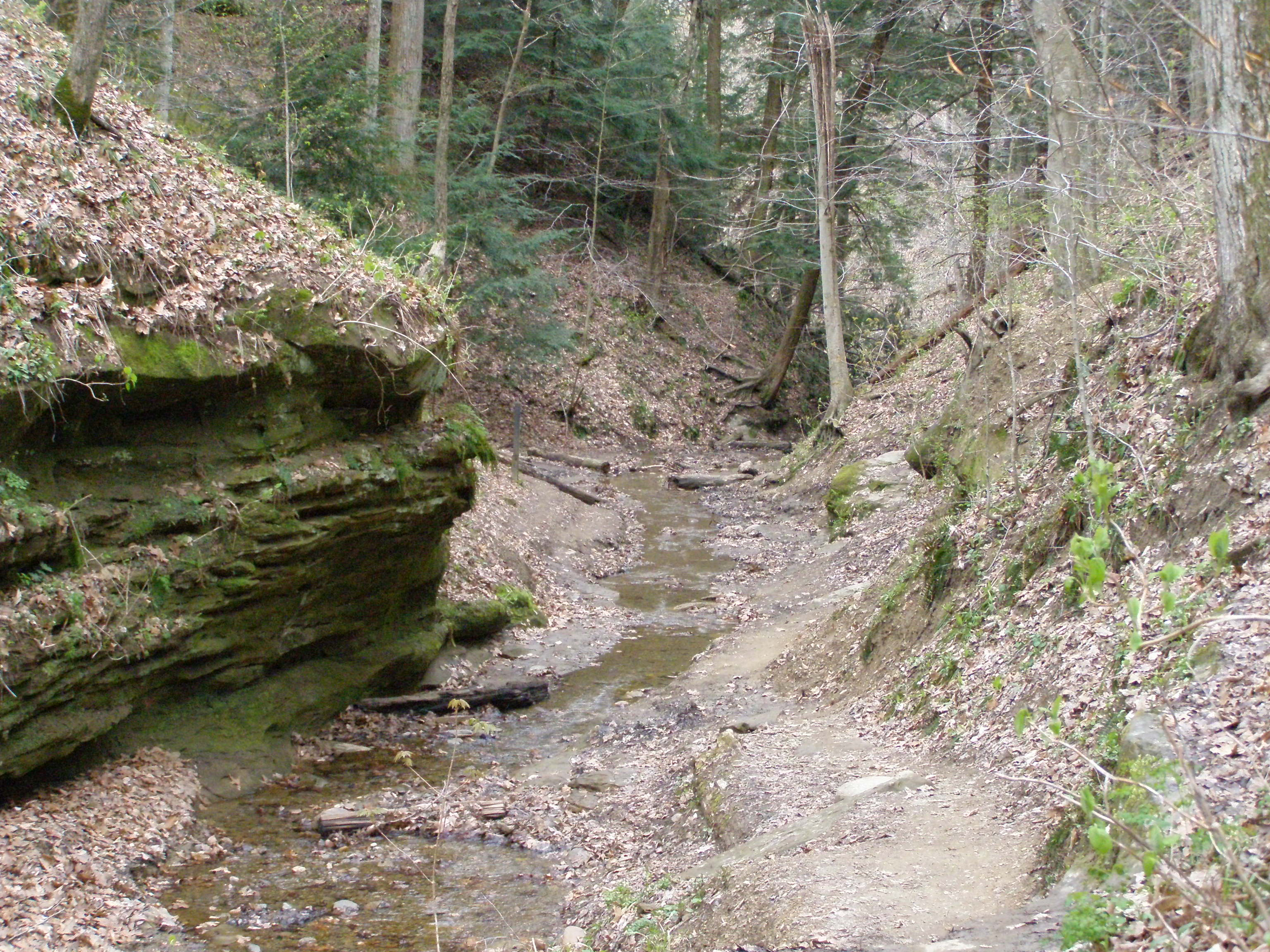 Along Trail 3, Rocky Hollow - Falls Canyon Nature Preserve, Turkey Run State Park, Indiana.